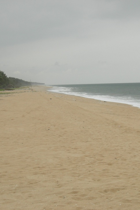 Lekki Peninsula Coastline. Personal Photograph. Taken 2007.